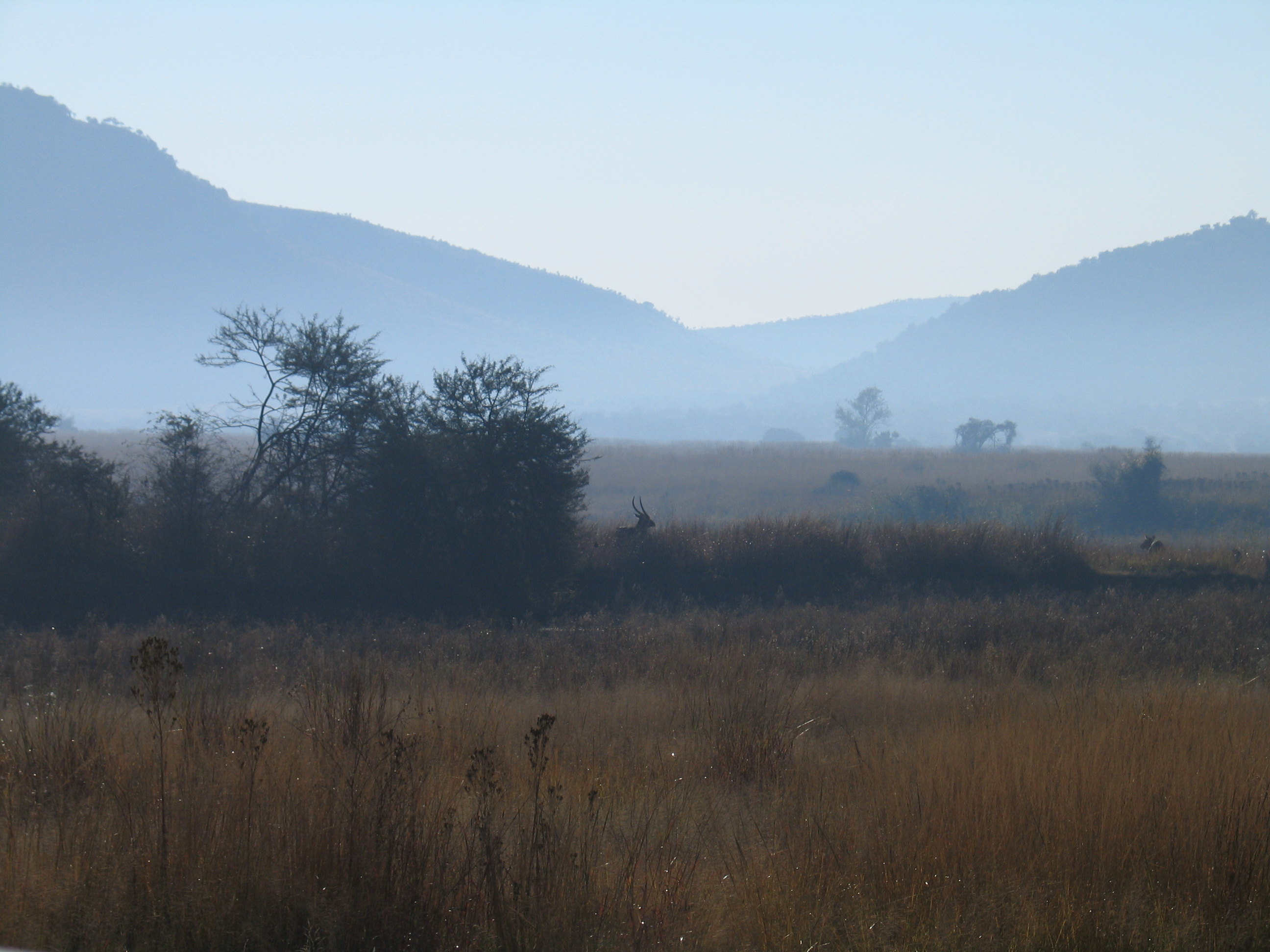 Waterbuck and young in morning mist, Pilanesberg Game Reserve, South Africa